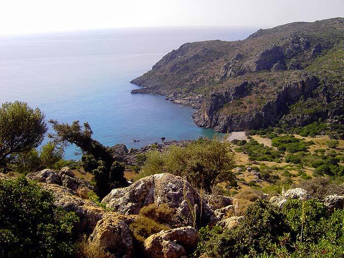 View to archeological site Lisos, southwest Crete